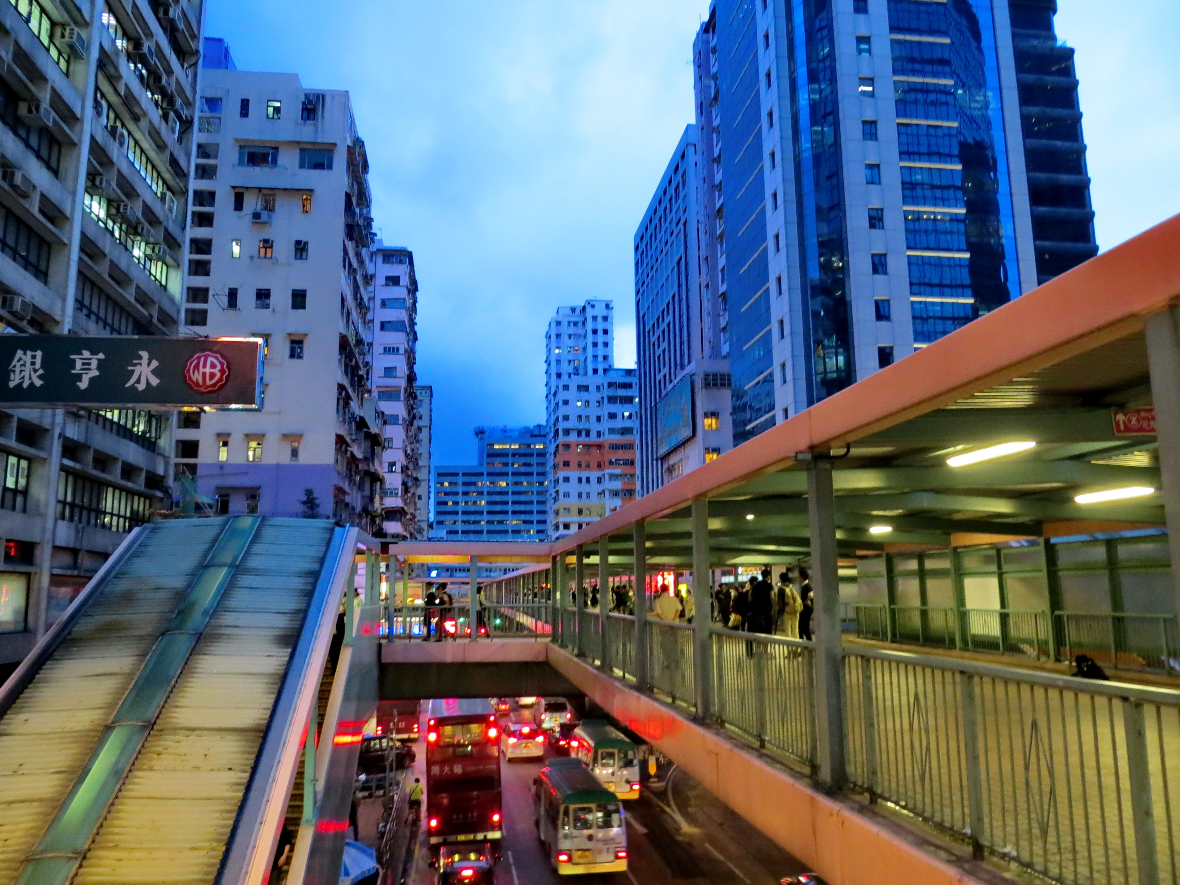 Footbridge System in Mong Kok, looking east from Mong Kok Road, Kowloon, Hong Kong.